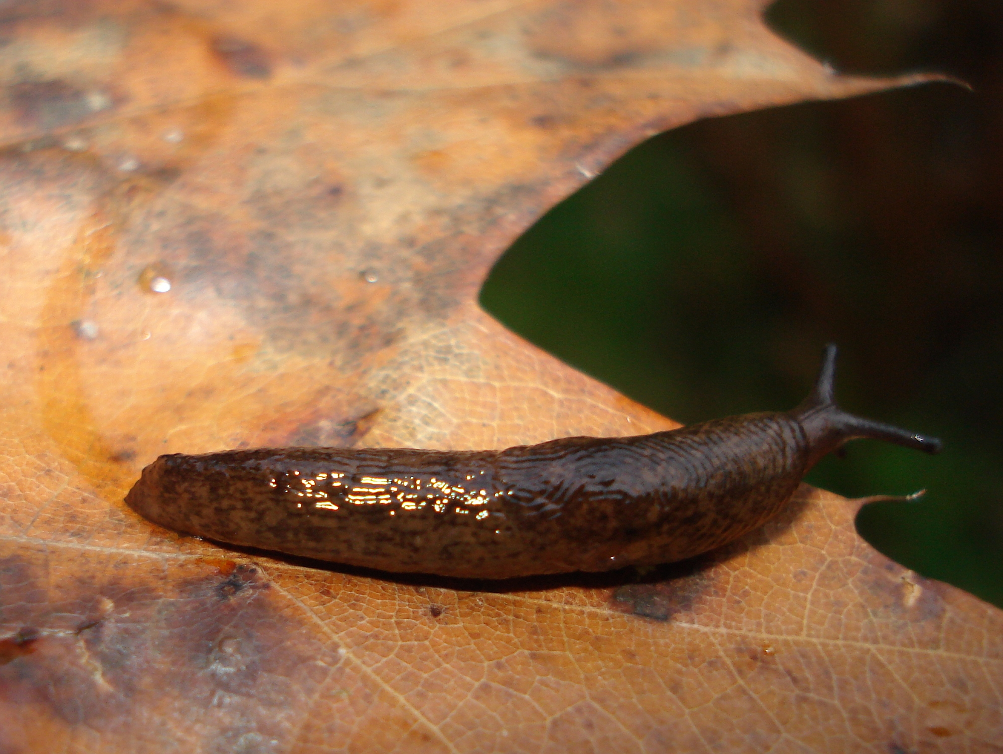 Deroceras panormitanum found eating Coreopsis in garden. Slime trail is visible on leaf. DSC03706